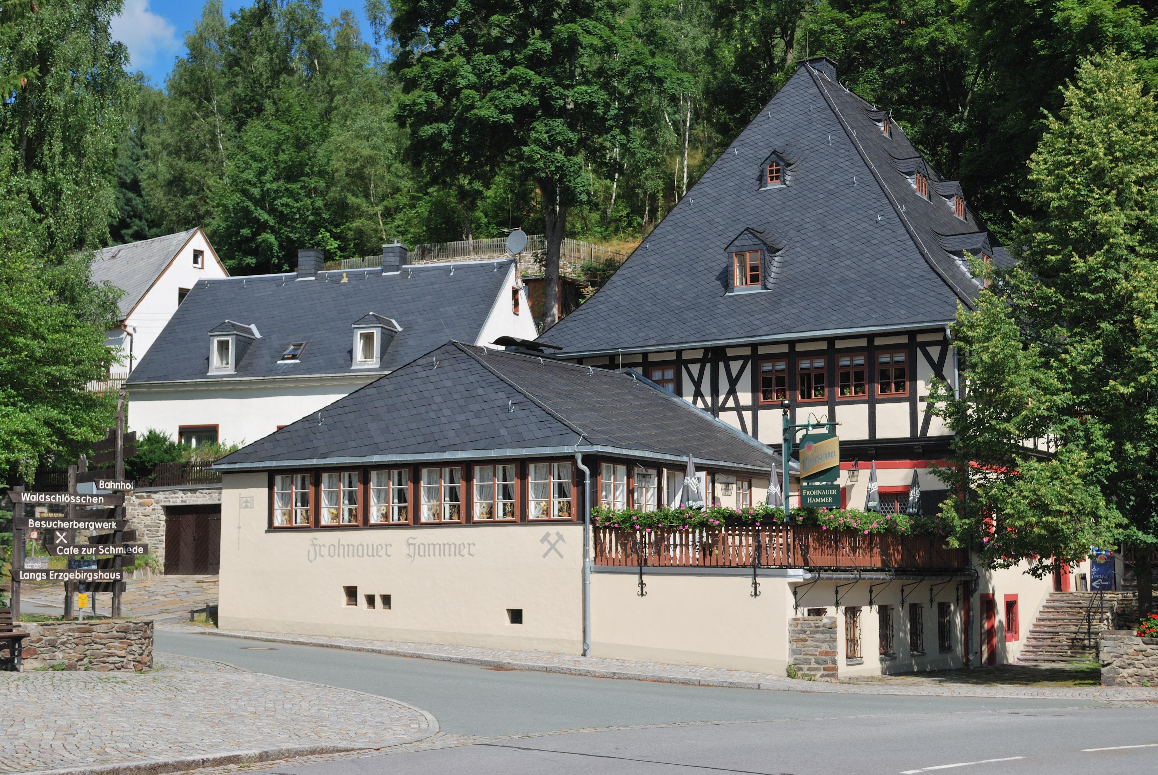 The manor house at Frohnauer Hammer, a historical hammer mill in Annaberg-Buchholz in Saxony. The building serves today as a restaurant and as museum.